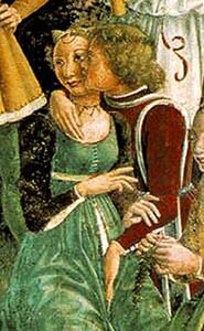 The Triumph of Venus (detail of fresco in Italy). The man's hand is wandering...